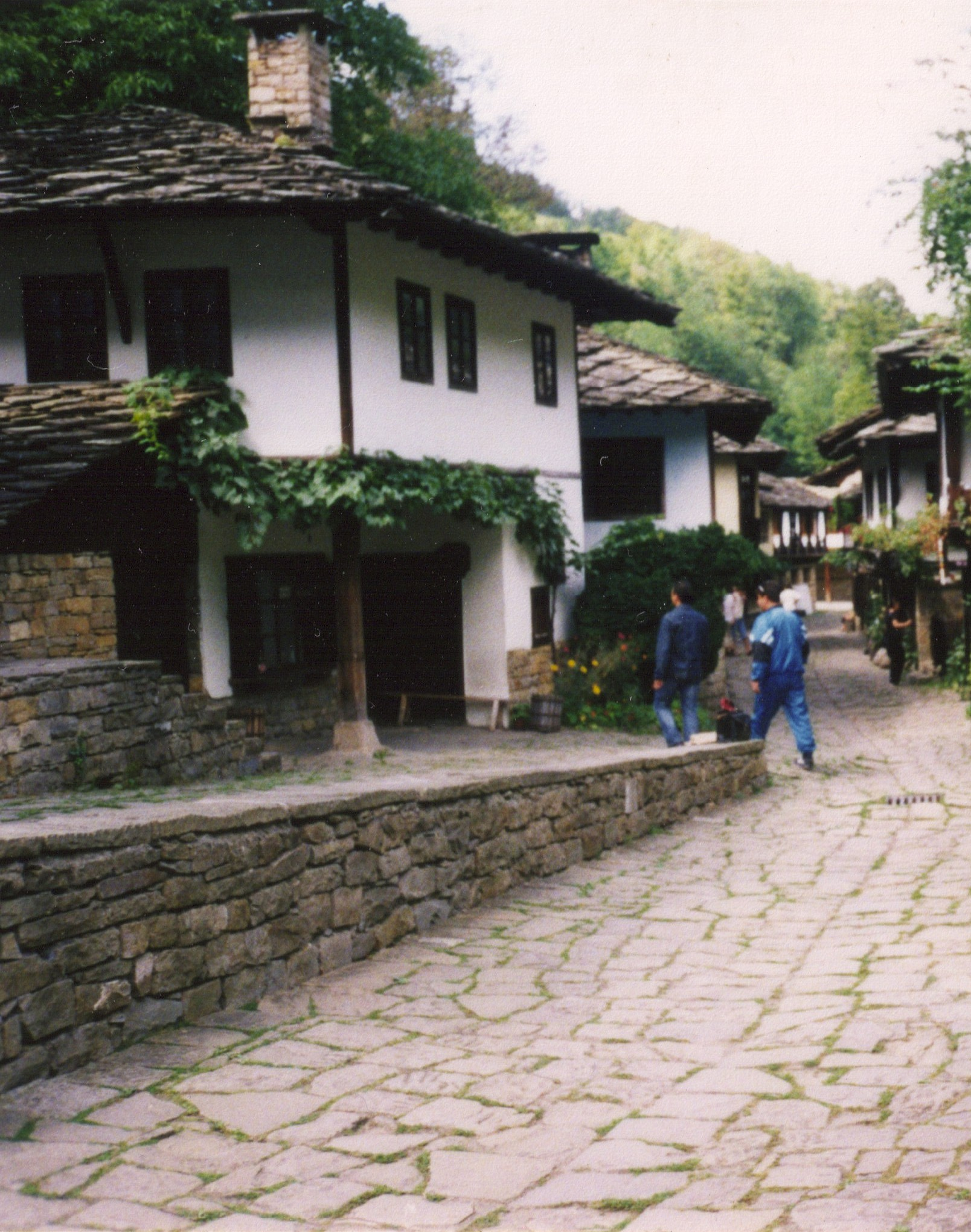 Etar near Gabrovo, Bulgaria.